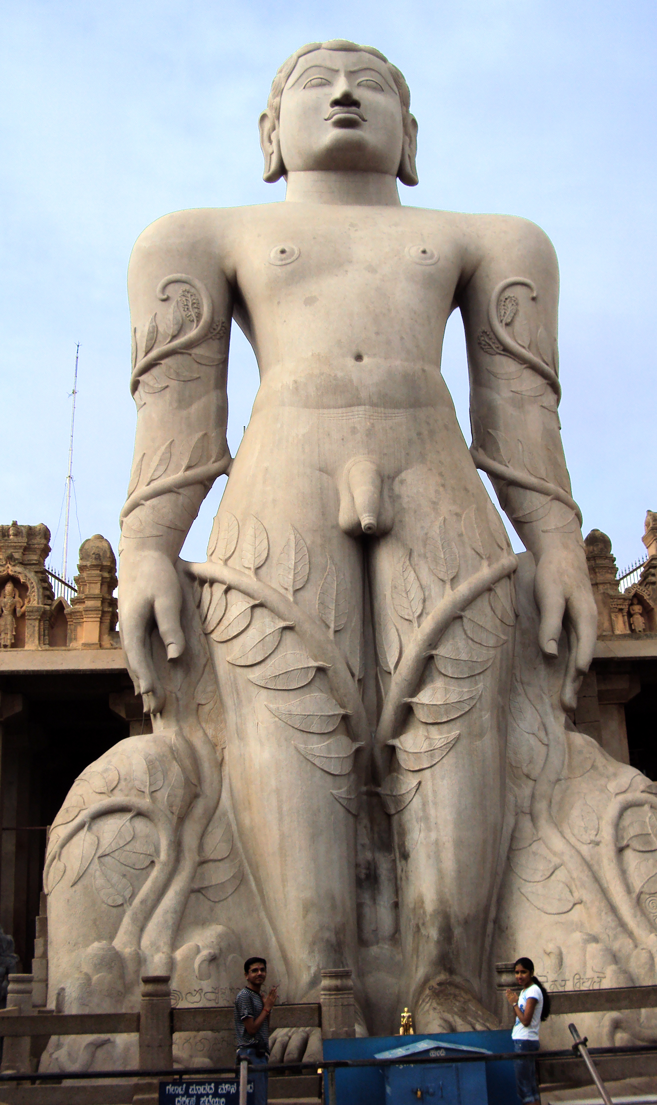 Statue of Gommateshvara Bahubali at Śravaṇa Beḷgoḷa.